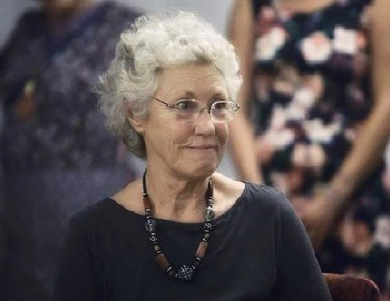 A traveller between worlds and a weaver of space-time connections for her ability of embracing distant wide horizons with a loving insight